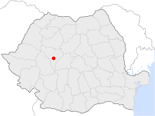 Location of Alba Iulia in Romania.